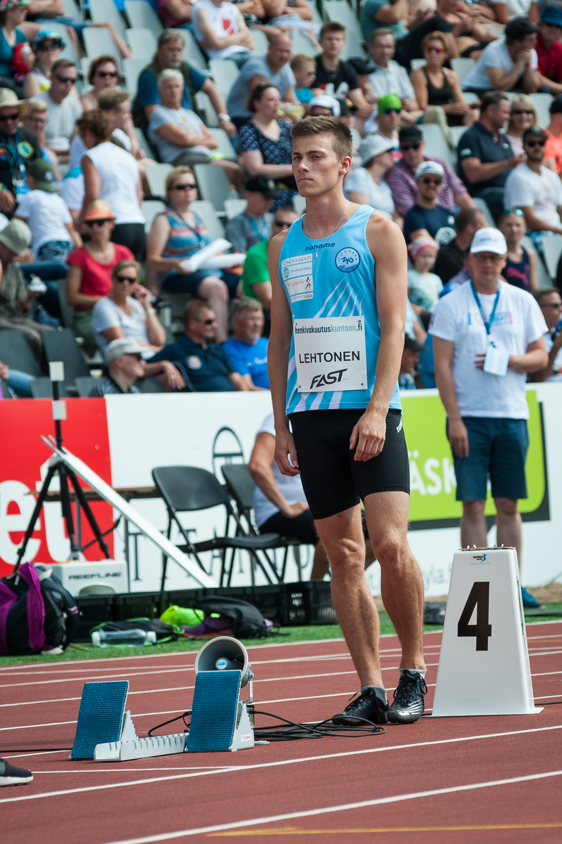 Men's 200 m competition at the 2018 Kalevan Kisat, the Finnish championships in athletics, in Jyväskylä, Finland.